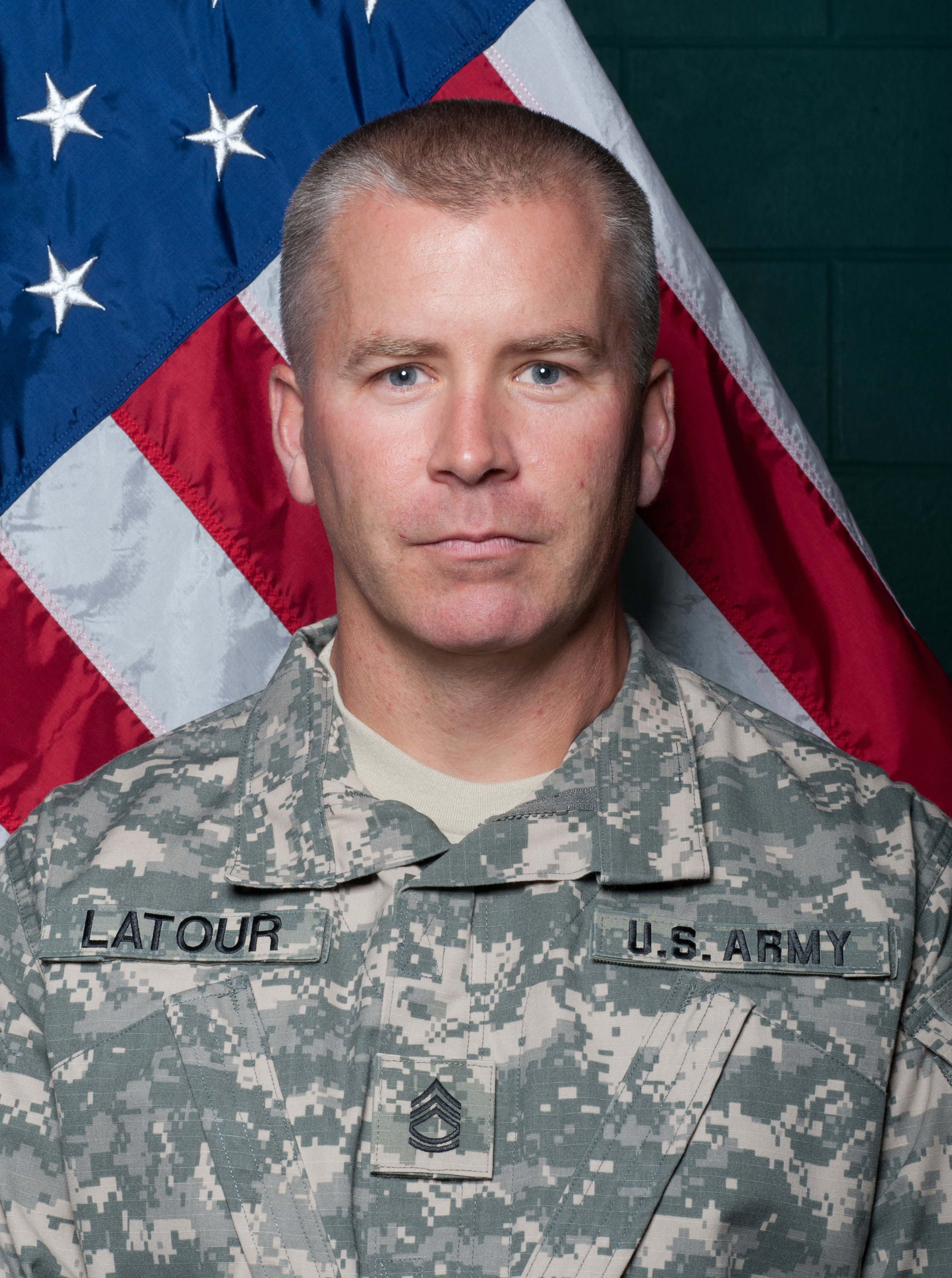 U.S. Army World Class Athlete Program skeleton coach Staff Sgt. Tuffield "Tuffy" Latour will lead Team USA skeleton athletes at the 2014 Olympic Winter Games in Sochi, Russia. This will be the fourth Olympics for Latour, who coached U.S. and Canadian men's and women's bobsled teams before taking the reigns of the U.S. Olympic skeleton squads.